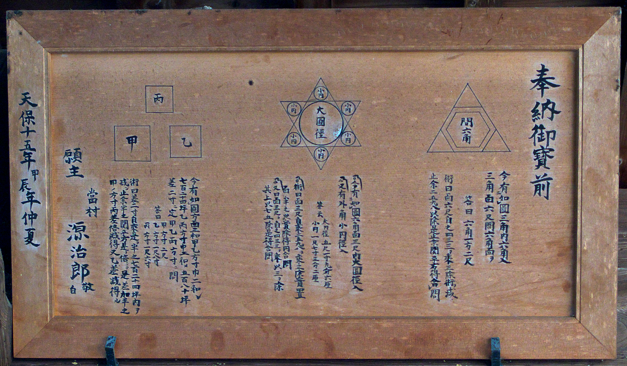 Sangaku dedicated at Enmanji Temple in Nara city, Japan.